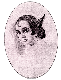 Eustahija Arsic, serbian writers (1776-1843) Srpski (latinica): Eustahija Arsić (1776-1843), srpska književnica